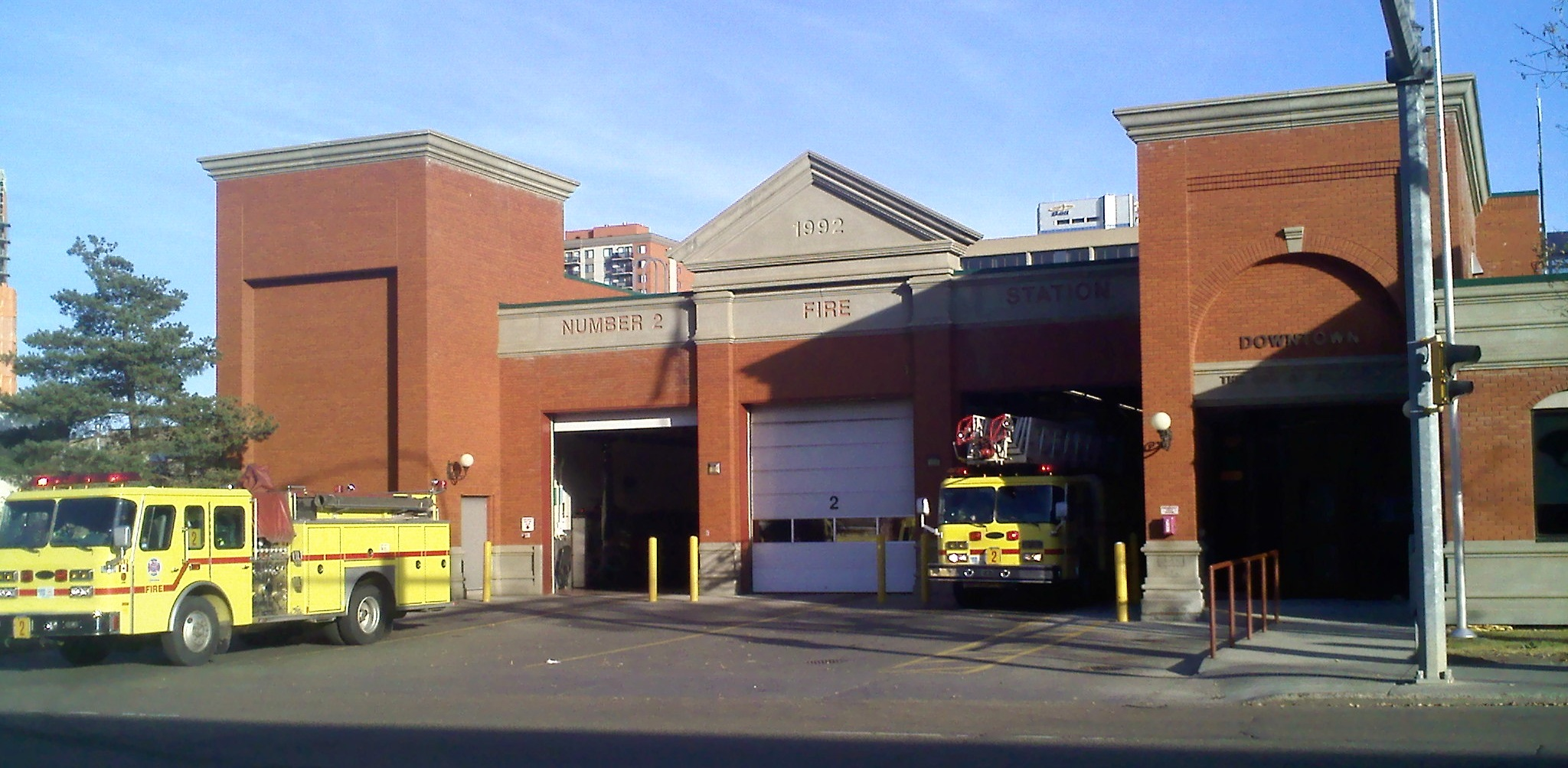 West face of Edmonton Fire Station Number Two at 10217 107 Street, Edmonton. I got there when the trucks were leaving on a call.